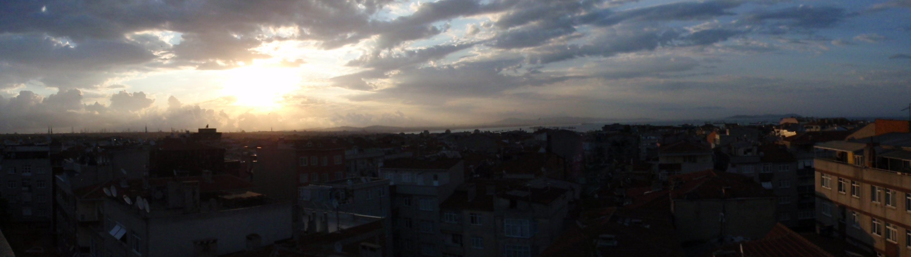 Panorama from Zeytinburnu